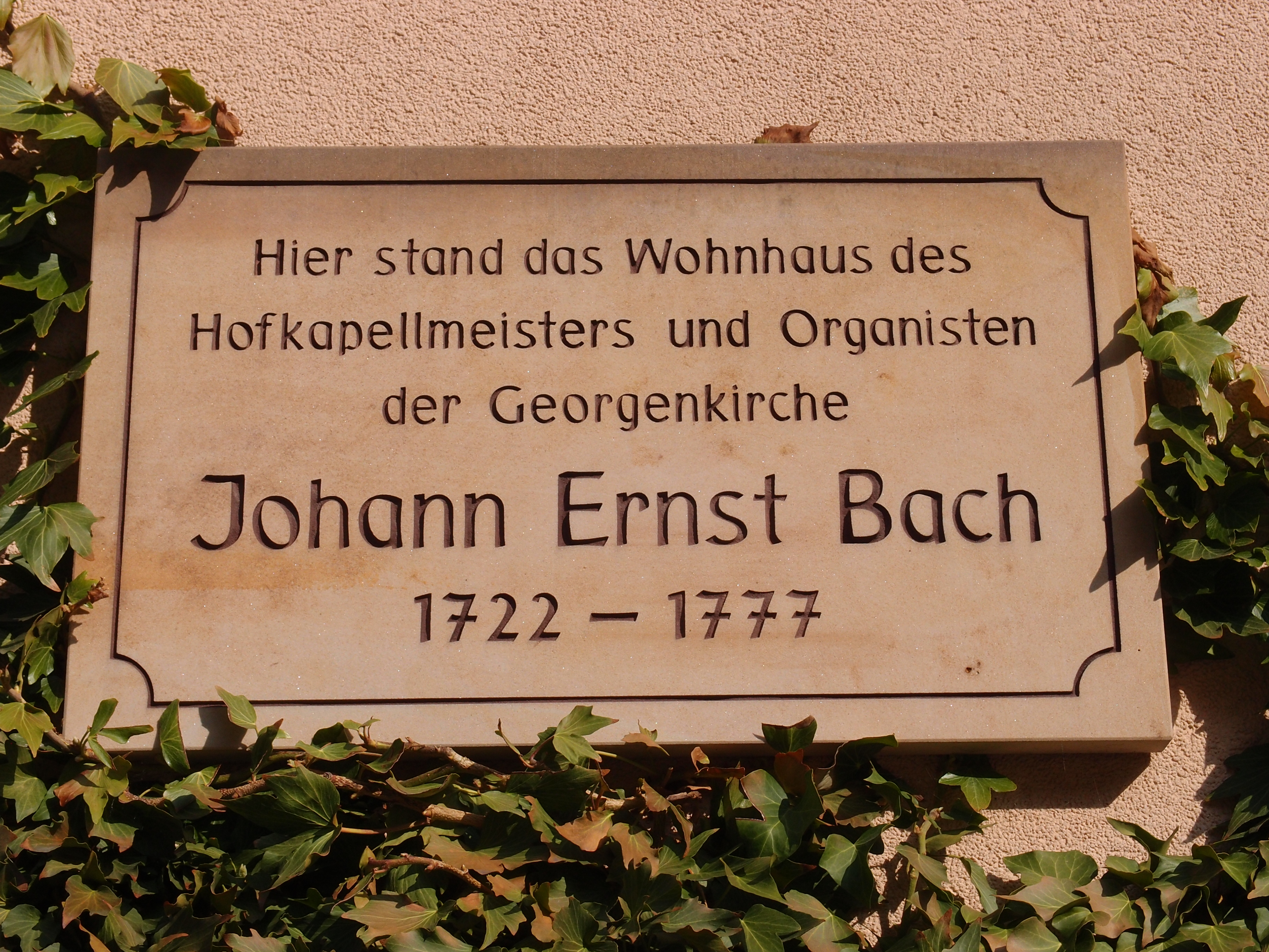 Memorial plaque for the German composer Johann Ernst Bach II (* 28. Januar 1722 in Eisenach; † 1. September 1777 in Eisenach) at Lutherplatz in Eisenach.